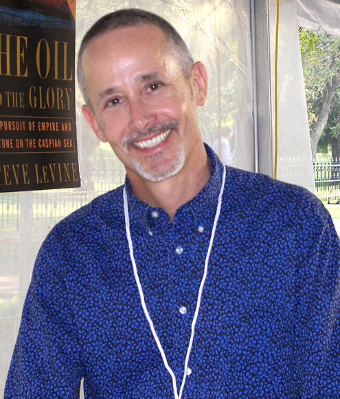 Steven Saylor at the 2007 Texas Book Festival, Austin, Texas, United States.